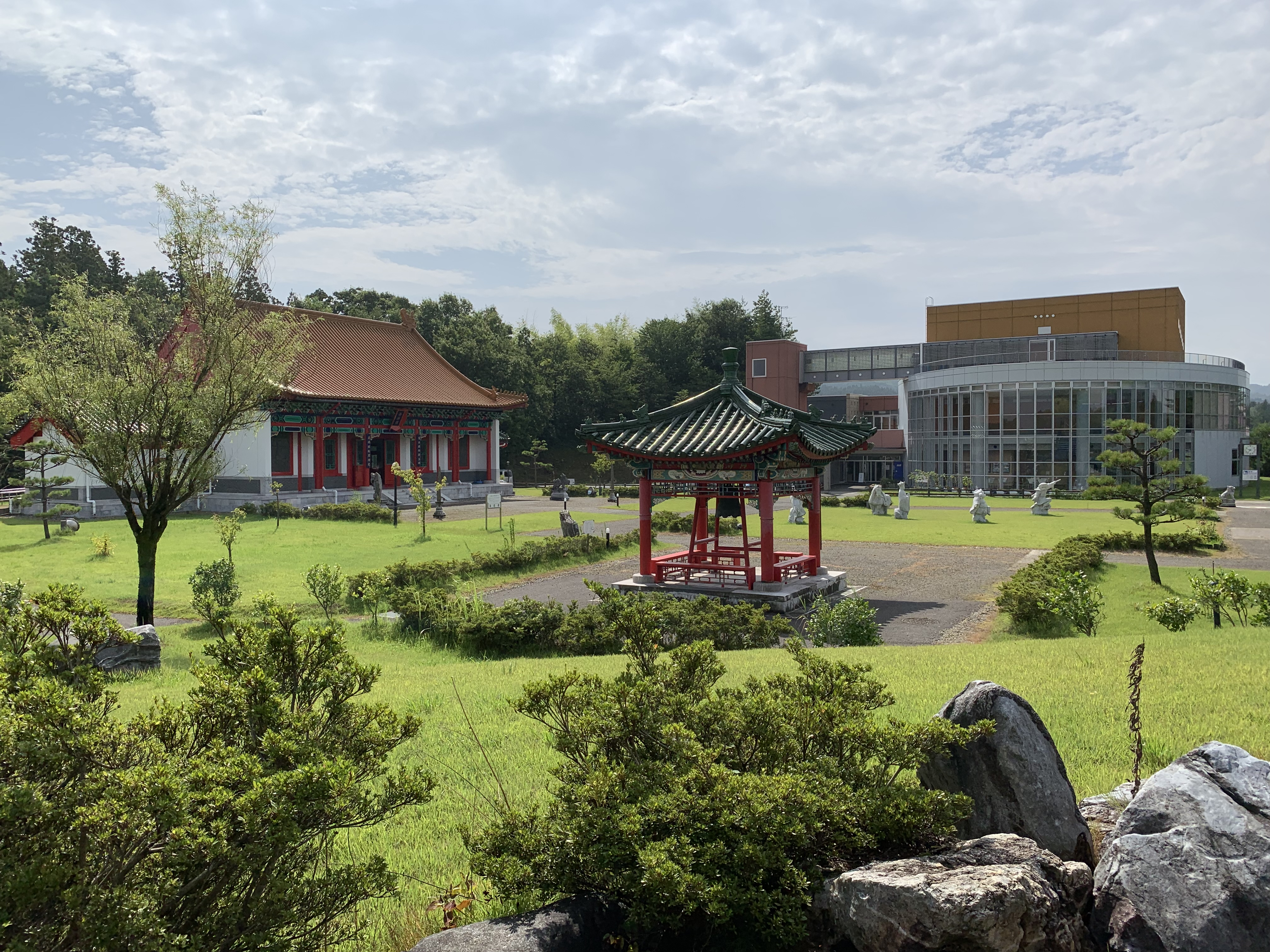 Nishiyama Furusato-Koen, Roadside Station, Niigata, Japan. Took photo in August 2019.